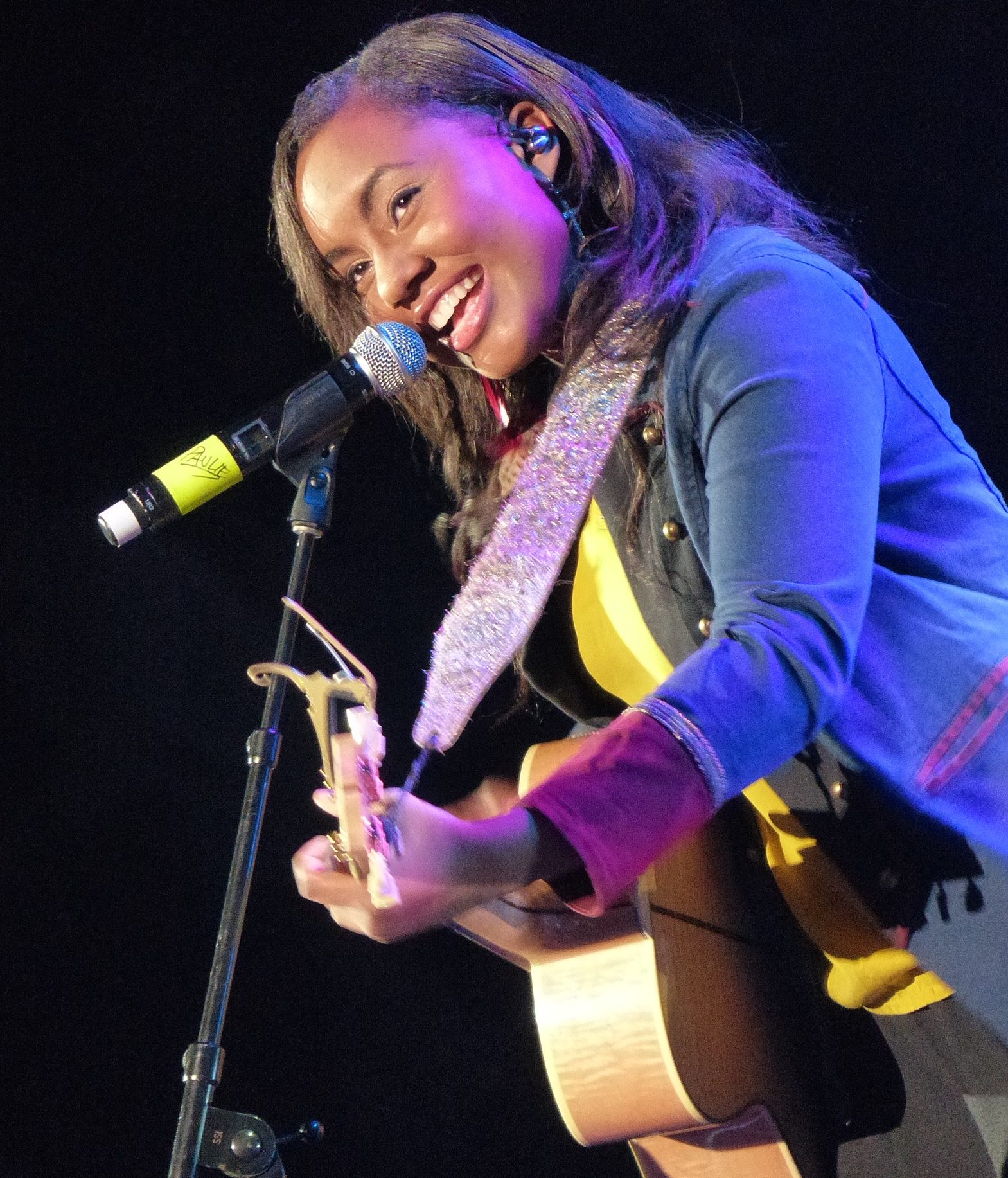 Jamie Grace performing at The Road Show at the Honda Center in Anaheim CA in 2014